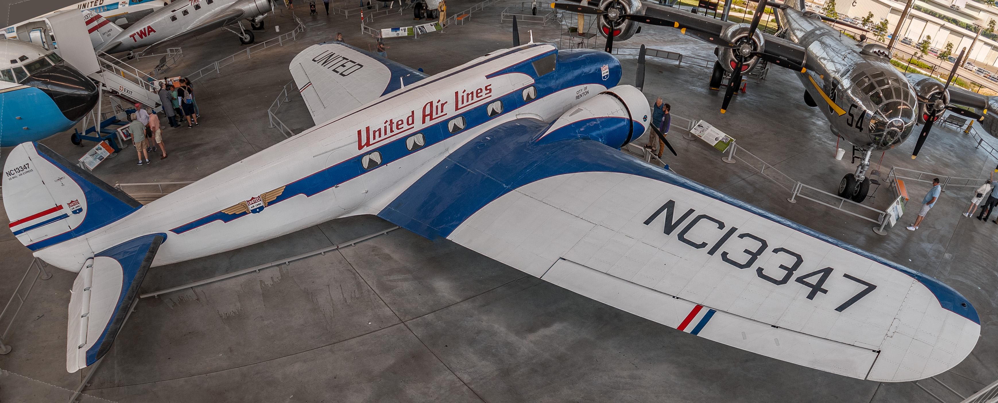 The Boeing Model 247 was an early United States airliner, considered the first such aircraft to fully incorporate advances such as all-metal (anodized aluminium) semimonocoque construction, a fully cantilevered wing and retractable landing gear. Other advanced features included control surface trim tabs, an autopilot and de-icing boots for the wings and tailplane.